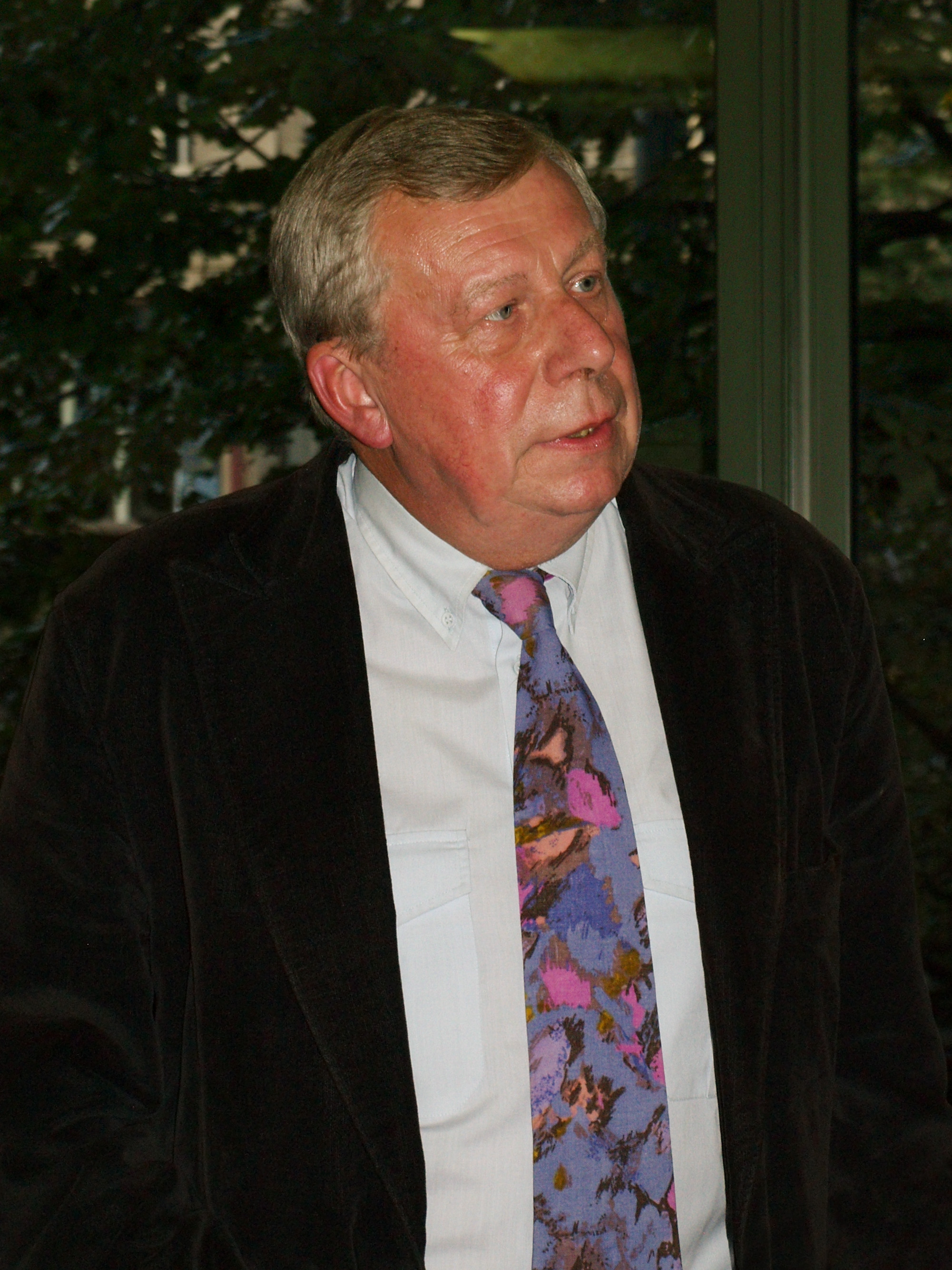 Antonín Matzner—Czech musical historian and producer; dramaturge of Prague Spring International Music Festival.